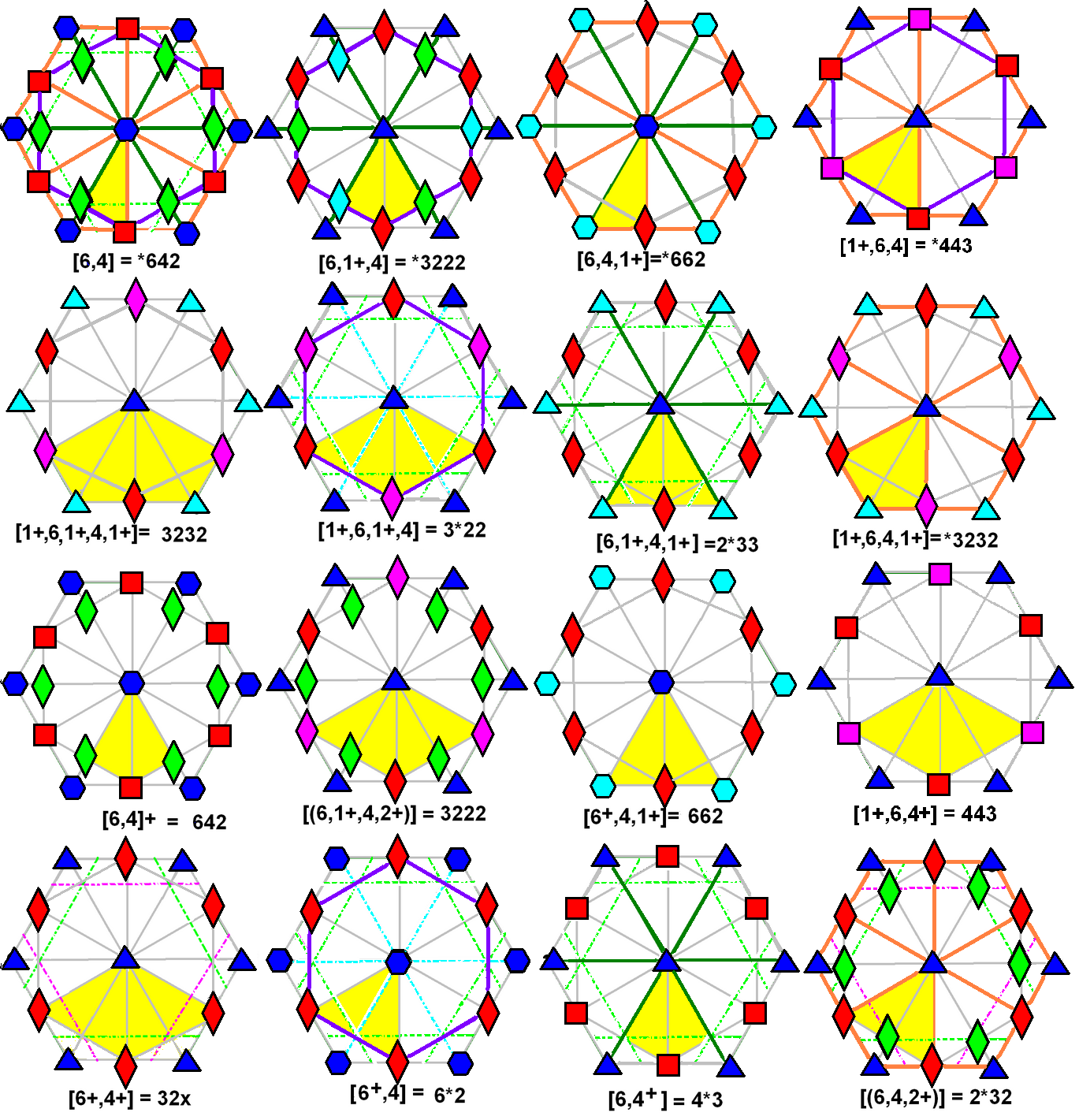 Hyperbolic symmetries of [6,4]